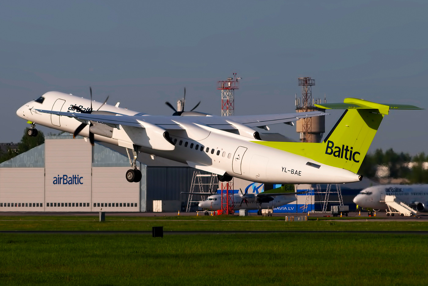 Air Baltic Bombardier Dash 8 Q400 YL-BAE.jpg